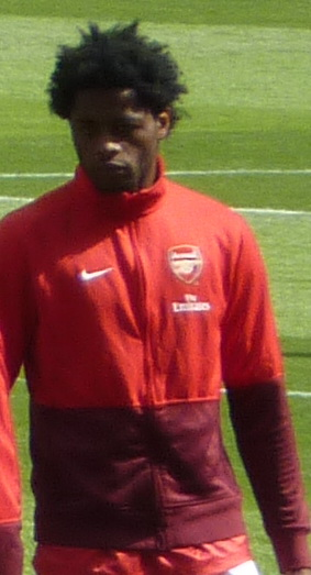 Alexandre Song is a Cameroonian footballer.